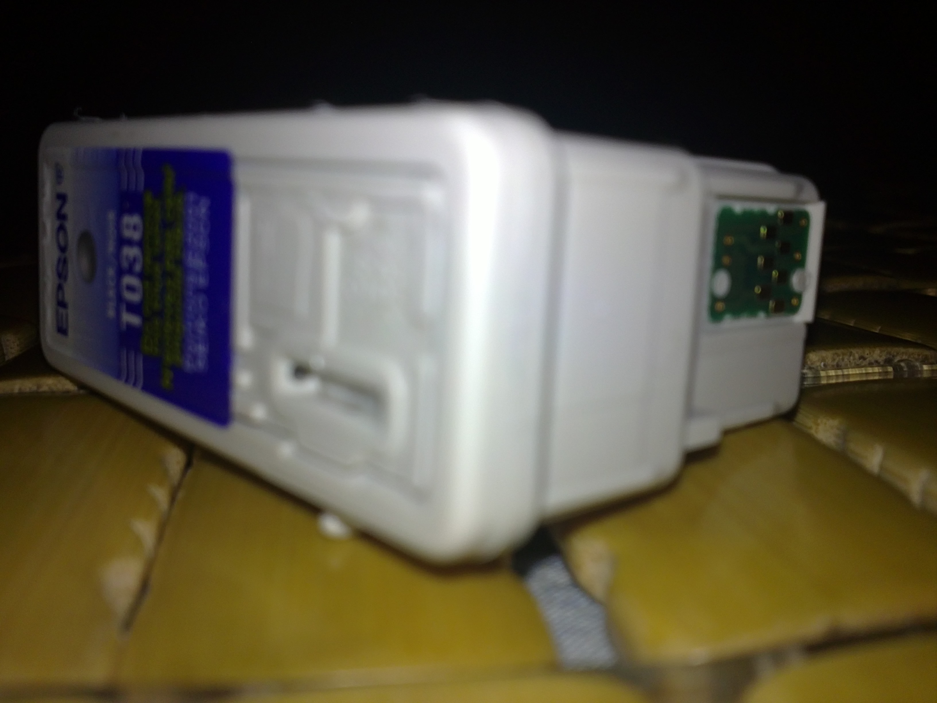 EPSON T038 With Chip